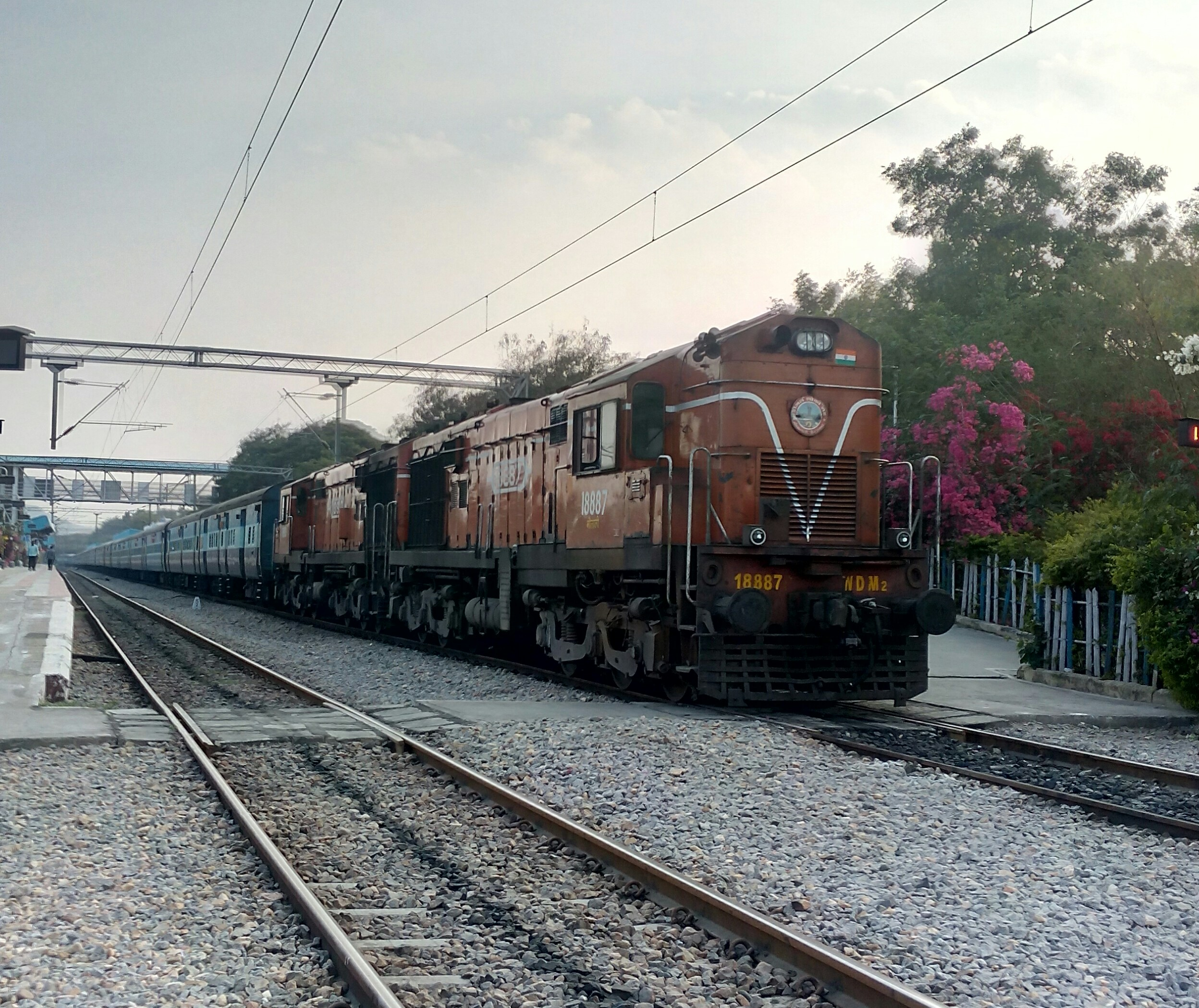 Venkatadri xpress